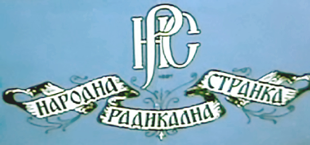 Logo of Serbian radical Party in the Kingdom of Serbia